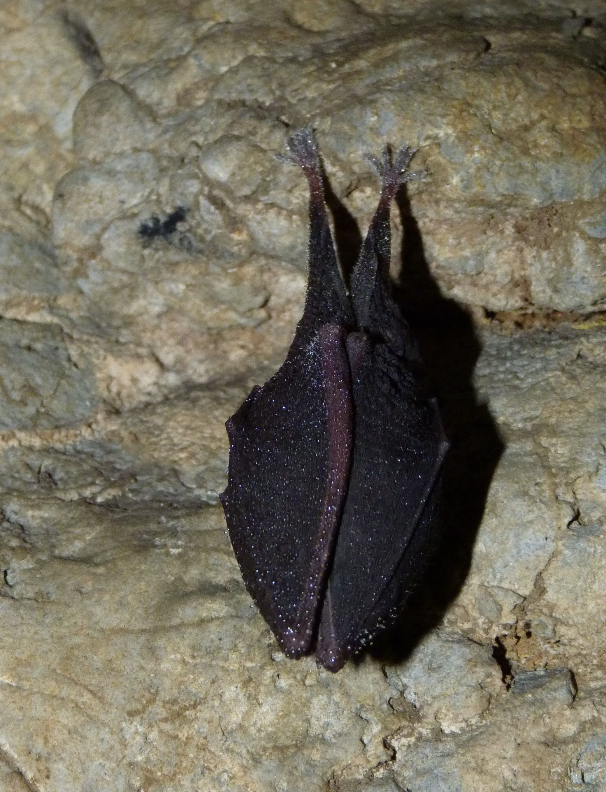 National natural munent Pekárna Cave (Moravian Karst), Brno-Country District, South Moravian Region, Czech Republic